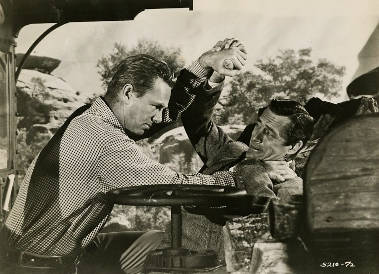 Sterling Hayden (left) & Reed Hadley in Kansas Pacific - publicity still (cropped)